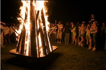 Fall Pep Rally at Tabor Academy, a private preparatory boarding school in Marion, Massachusetts.